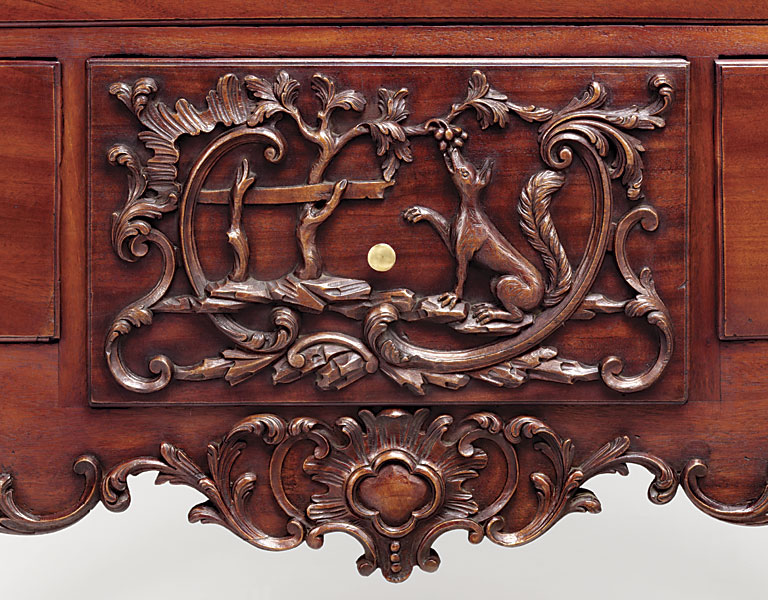 The fable of the fox and grapes: a wooden medallion on the high chest at the Philadelphia Museum of Art, made by Martin Jugiez c.1765-75